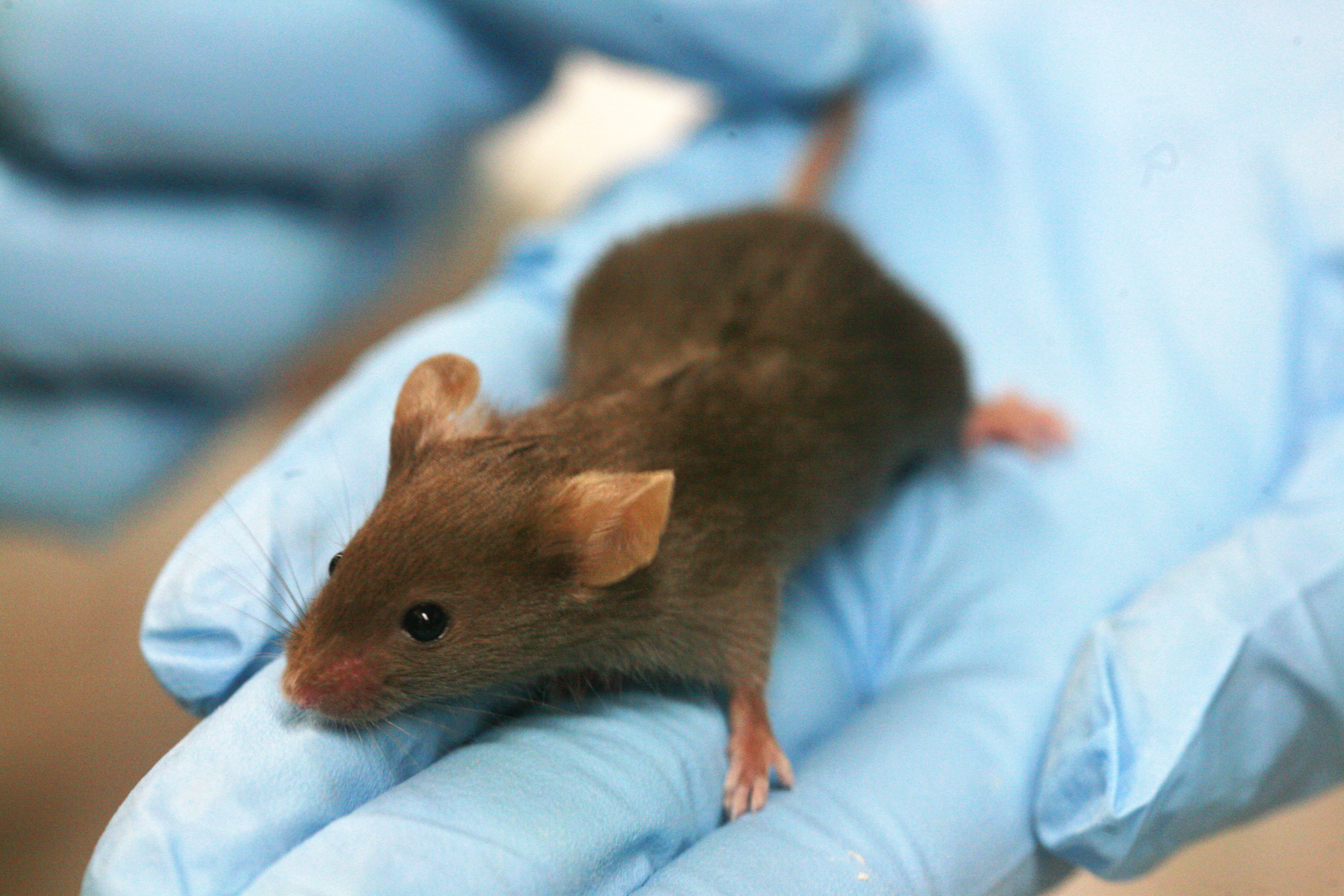 Laboratory mouse